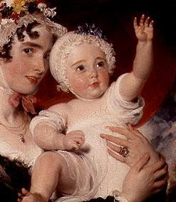 Priscilla Anne Fane holding George Augustus Frederick John Fane, Lord Burghersh